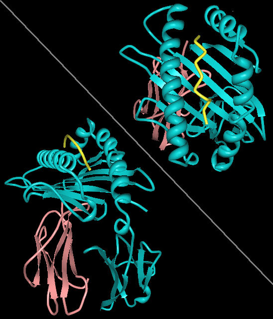 Rendering of HLA-A11 with HBV peptide homologue. IMage shows two views. Lower left shows side view of the binding pocket with B2-Microglobulin on the lower left and peptide (yellow) at the top. Second view (Top right) shows the peptide binding pocket looking strait down. The image is derived from the work of:Blicher, T., Kastrup, J.S., Pedersen, L.O., Buus, S., Gajhede, M. (2006) Structure of HLA-A*1101 in complex with a hepatitis B peptide homologue. Acta Crystallogr., Sect.F 62: 1179-1184. The image is rendered with PDB ProteinWorkshop 1.5.